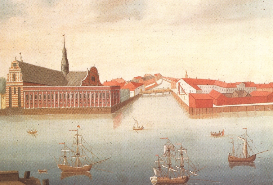 Holmens Kanal as canal with the Church of Holmen seen to the right in Copenhagen, Denmark